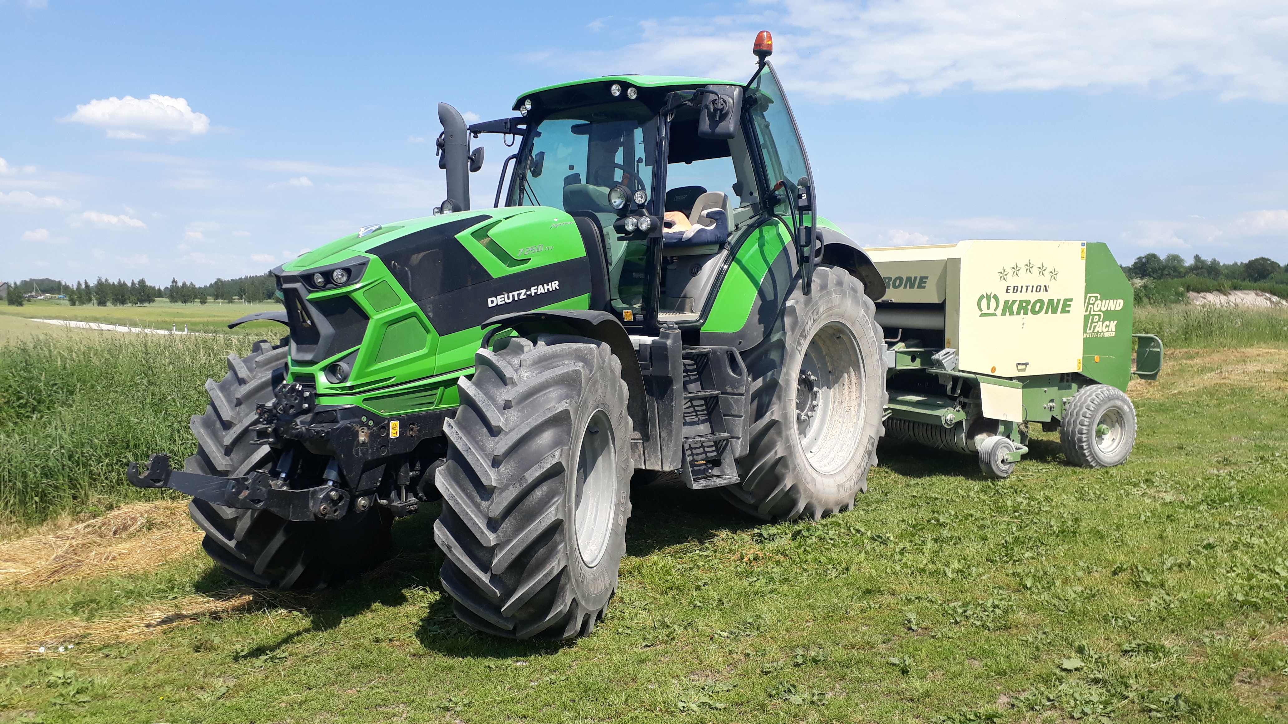 Deutz-Fahr 7250 TTV in Lithuania 2020